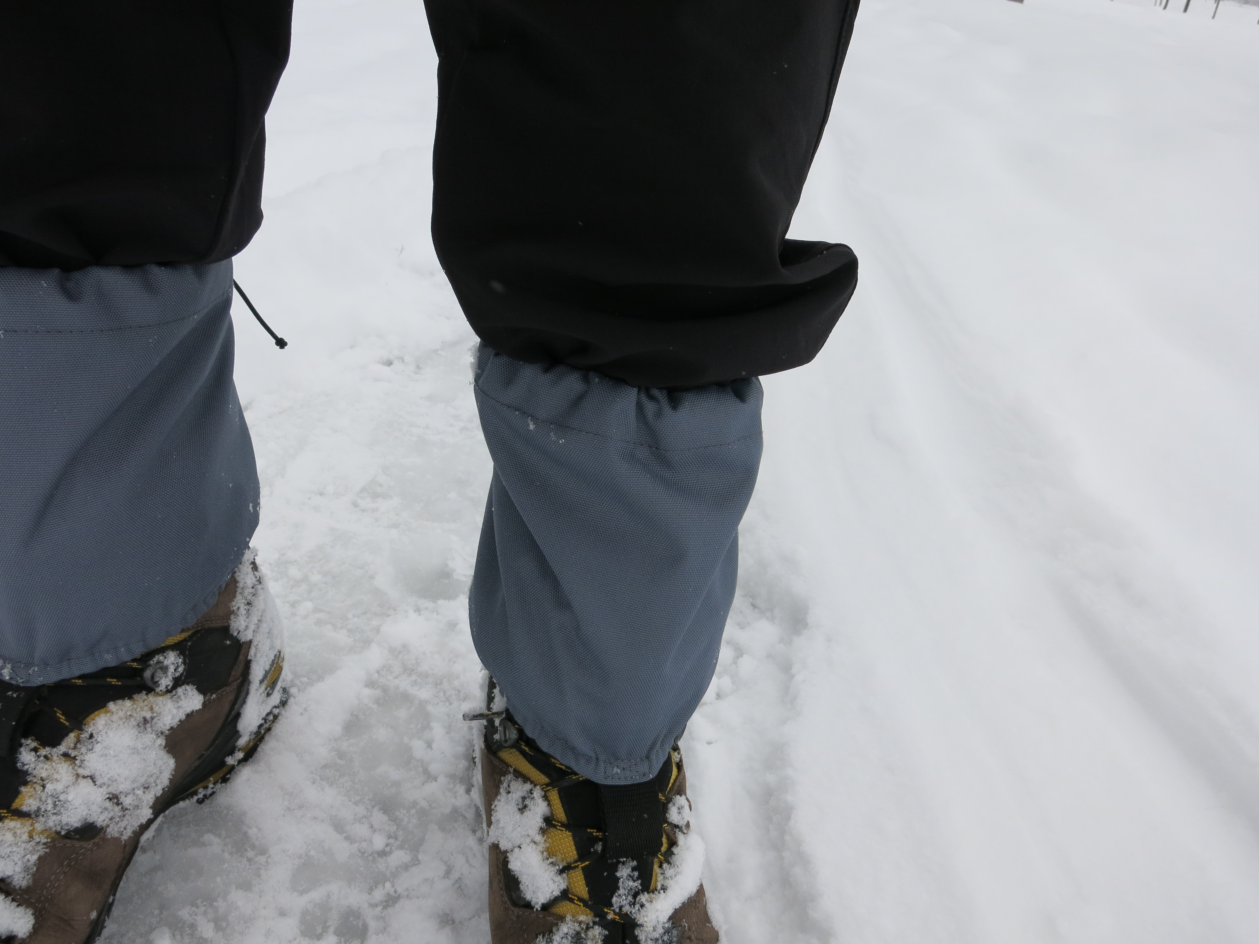 Short hiking gaiters